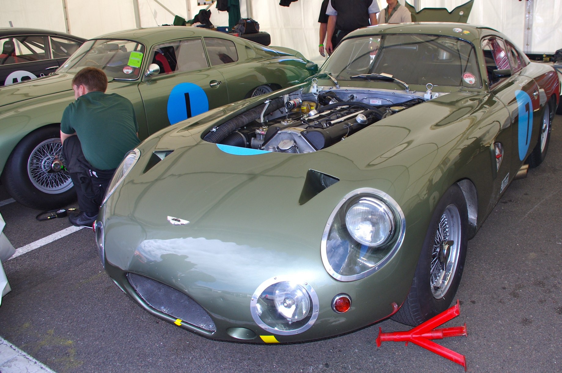 Silverstone Classic 2011